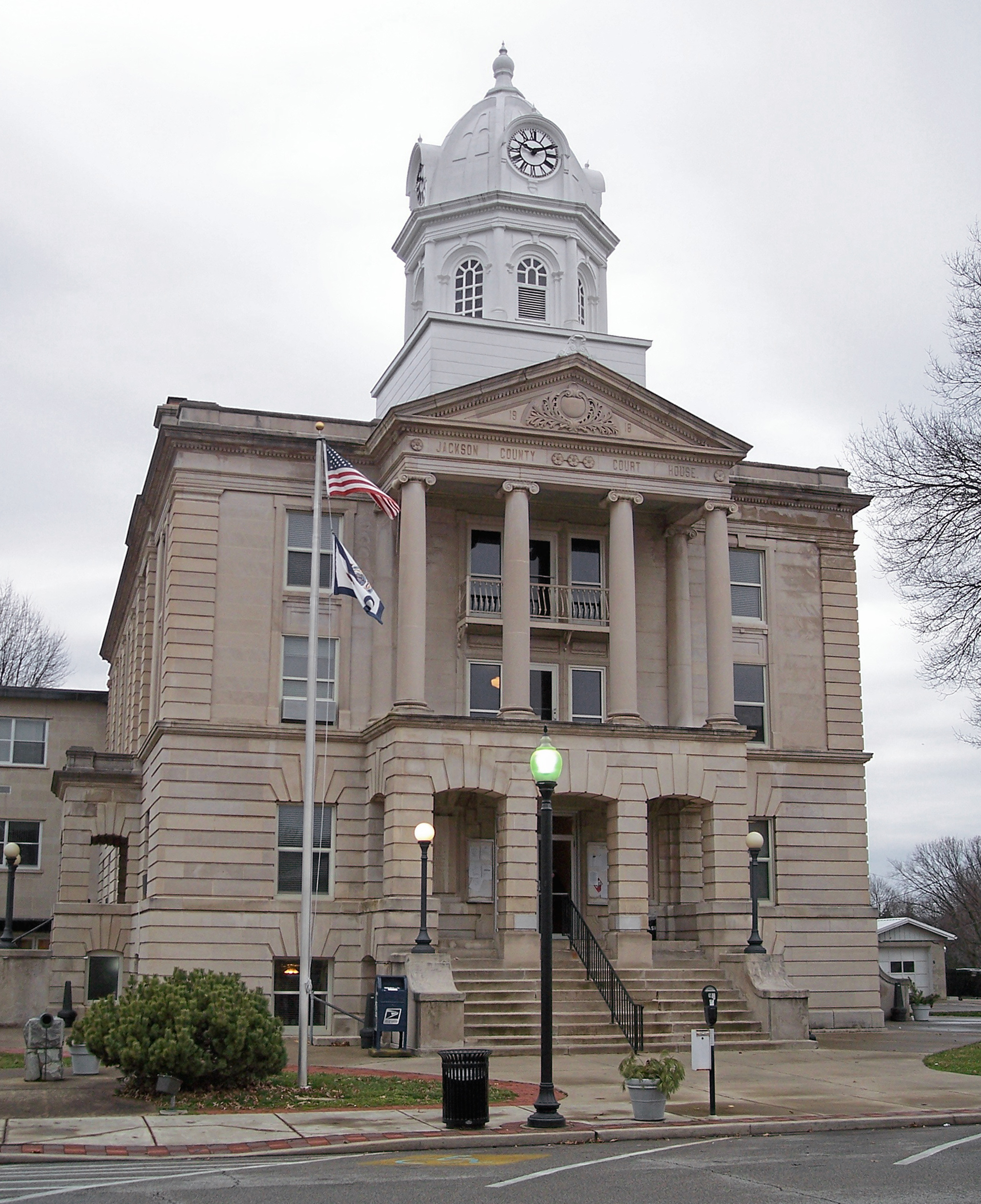 The Jackson County Courthouse on North Court Street in downtown Ripley, West Virginia